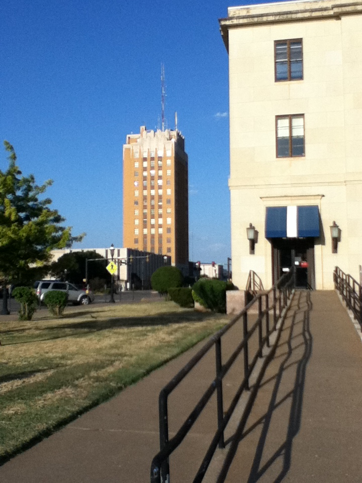 The entrance to the post office in Enid, Oklahoma with the Broadway Tower in the background.